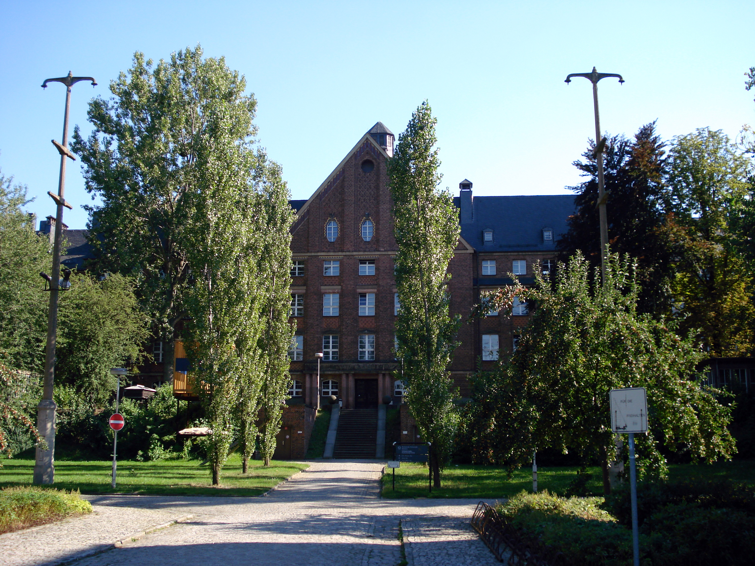 The terrain of the TU Dresden